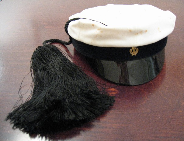 Finnish Engineering student cap, model used in Tampere University of Technology. Some champagne stains on the outside.